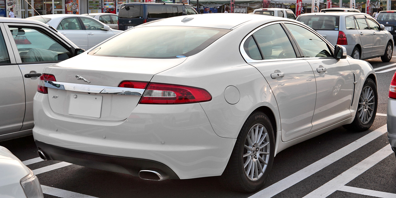 Jaguar XF ( for Japanese market )